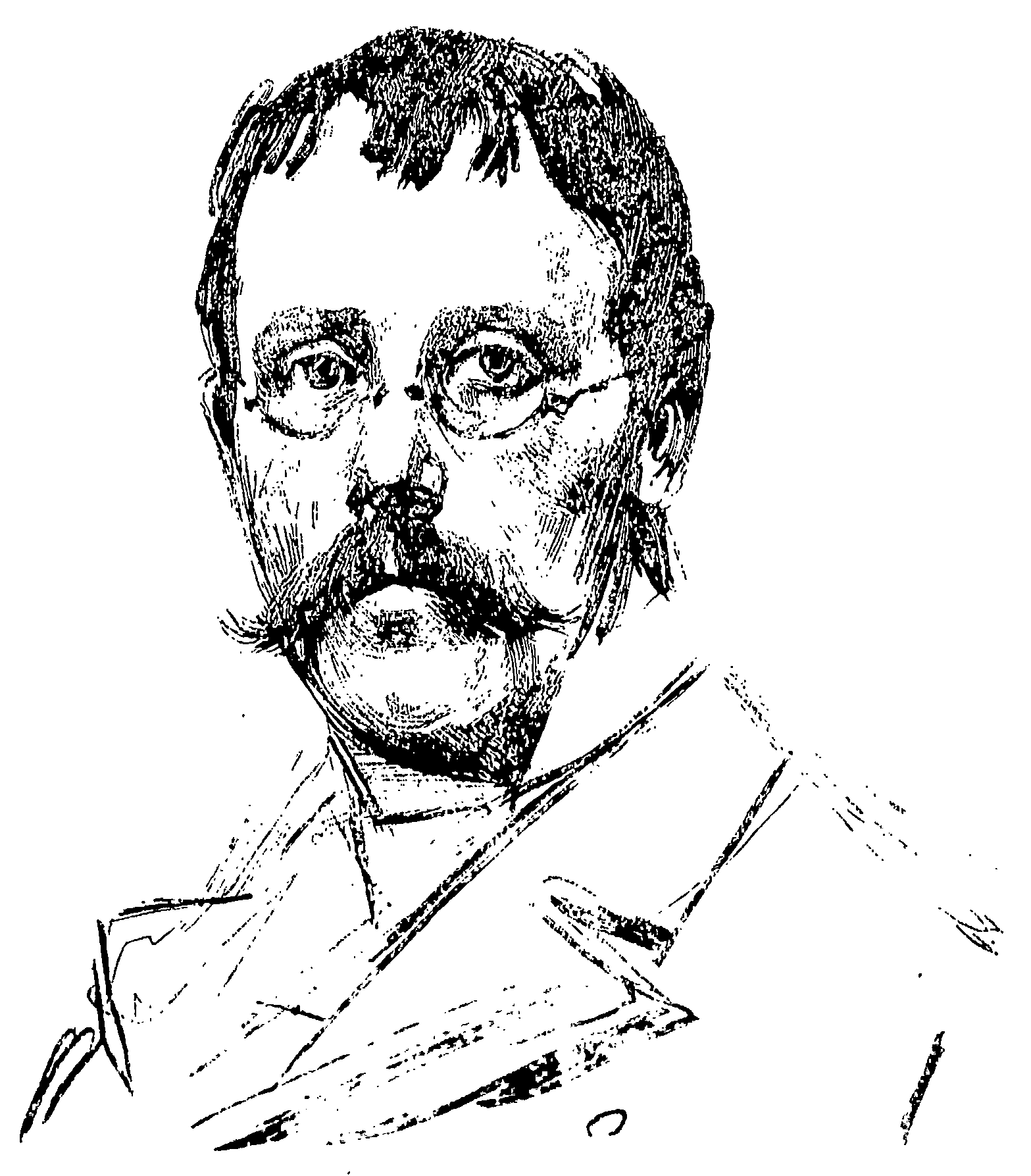 The Norwegian artist Eilif Peterssen drawn by Christian Krohg.